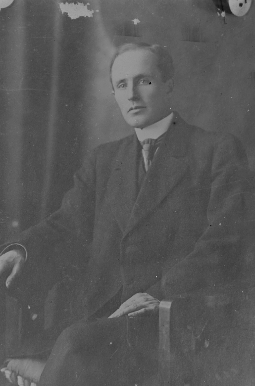 Arthur Meighen